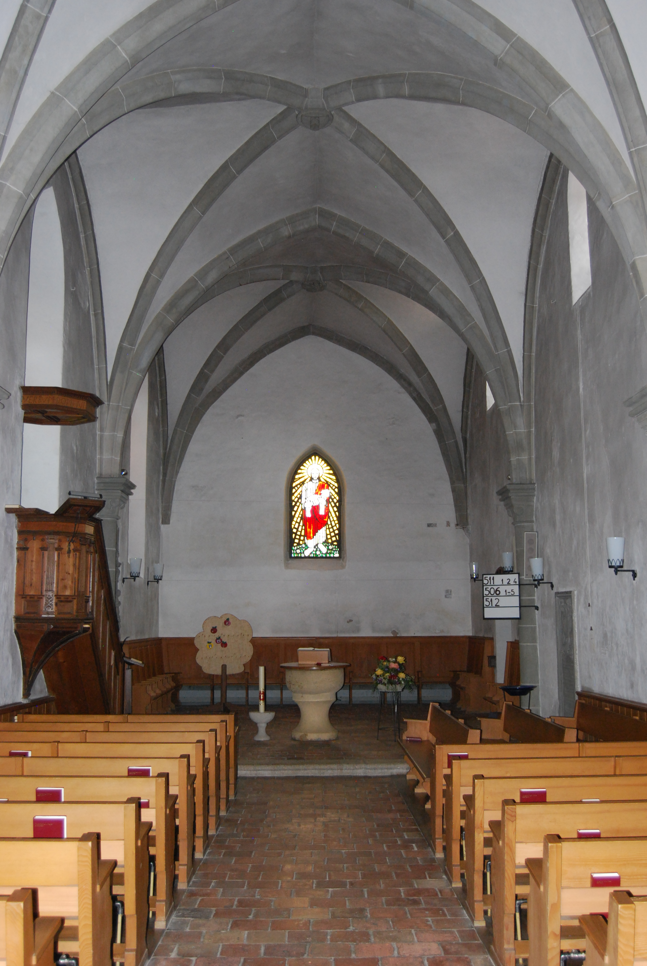 Monastery Church Gottstatt, Orpund, canton of Bern, SwitzerlandEsperanto: Monaĥeja Preĝejo Gottstatt, Orpund, Kantono Berno, Svislando